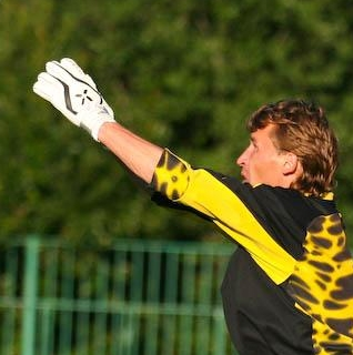 Oleg Maslennikov in action for FC Torpedo Vladimir